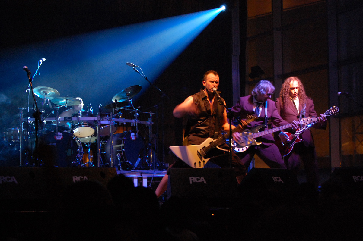 Koma, Sala Toletum (Toledo). 2009